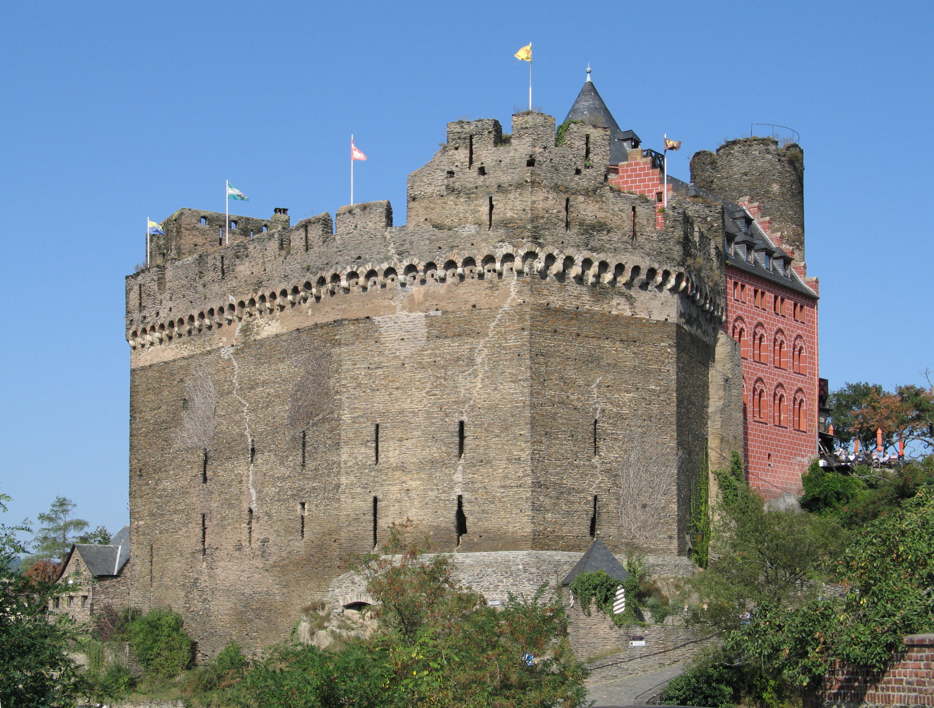 Frontal wall of Schoenburg castle near Oberwesel, Rhine, Germany.